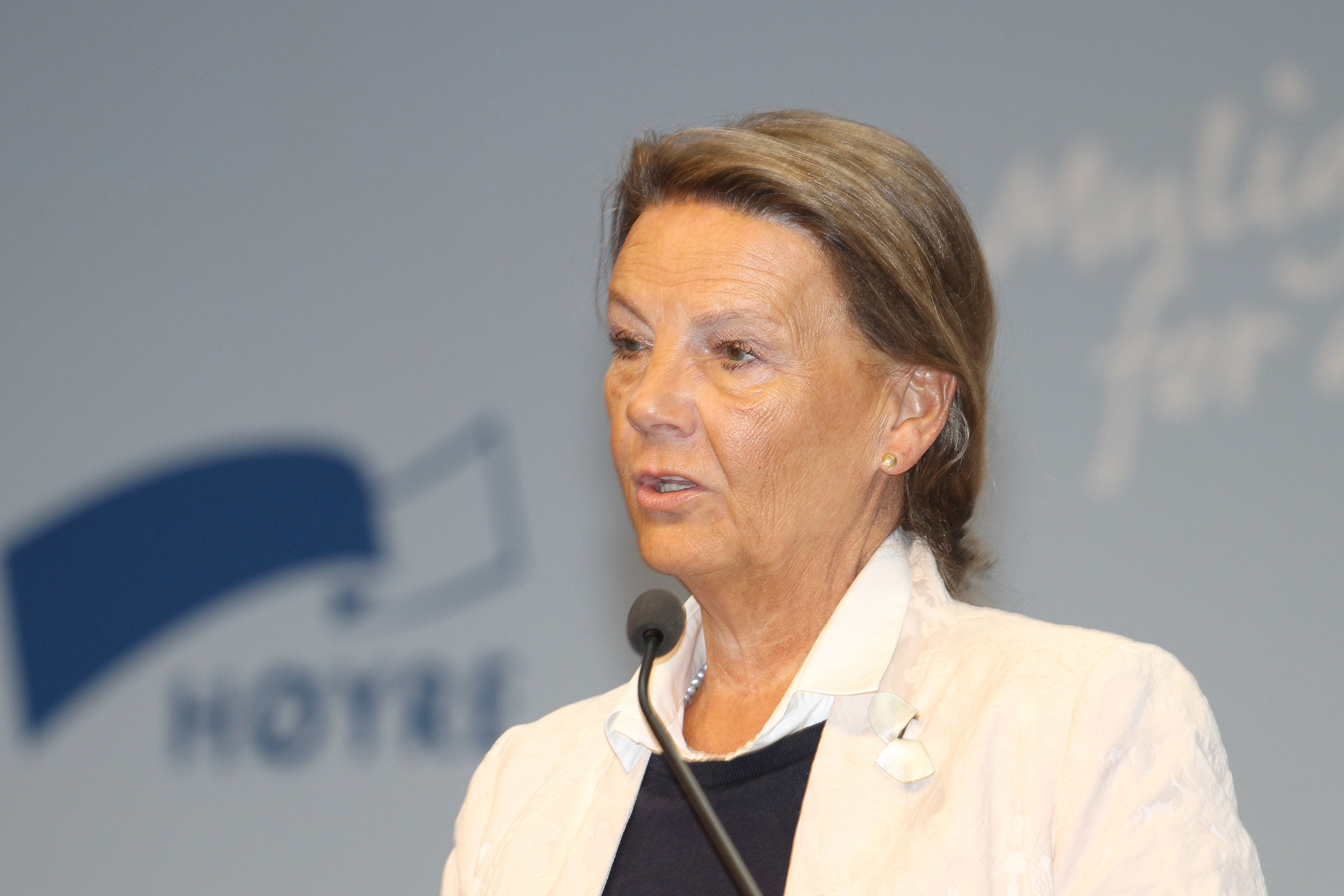 Ingjerd Schou